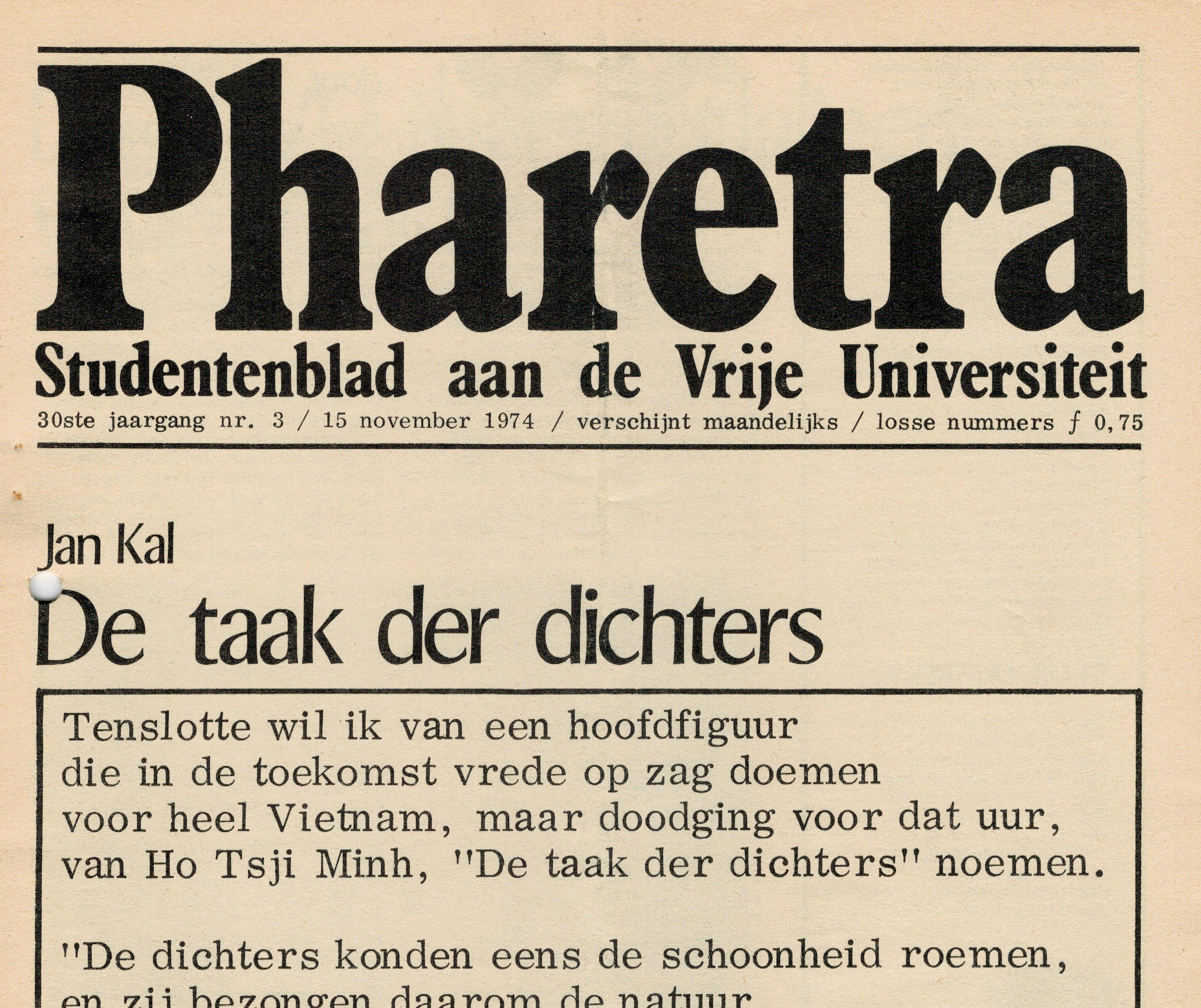 Pharetra - student journal of Free University Amsterdam (Netherlands); part of cover 1974 with poem by Jan Kal